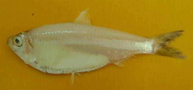 Escualosa thoracata collected in Karachi, Pakistan.